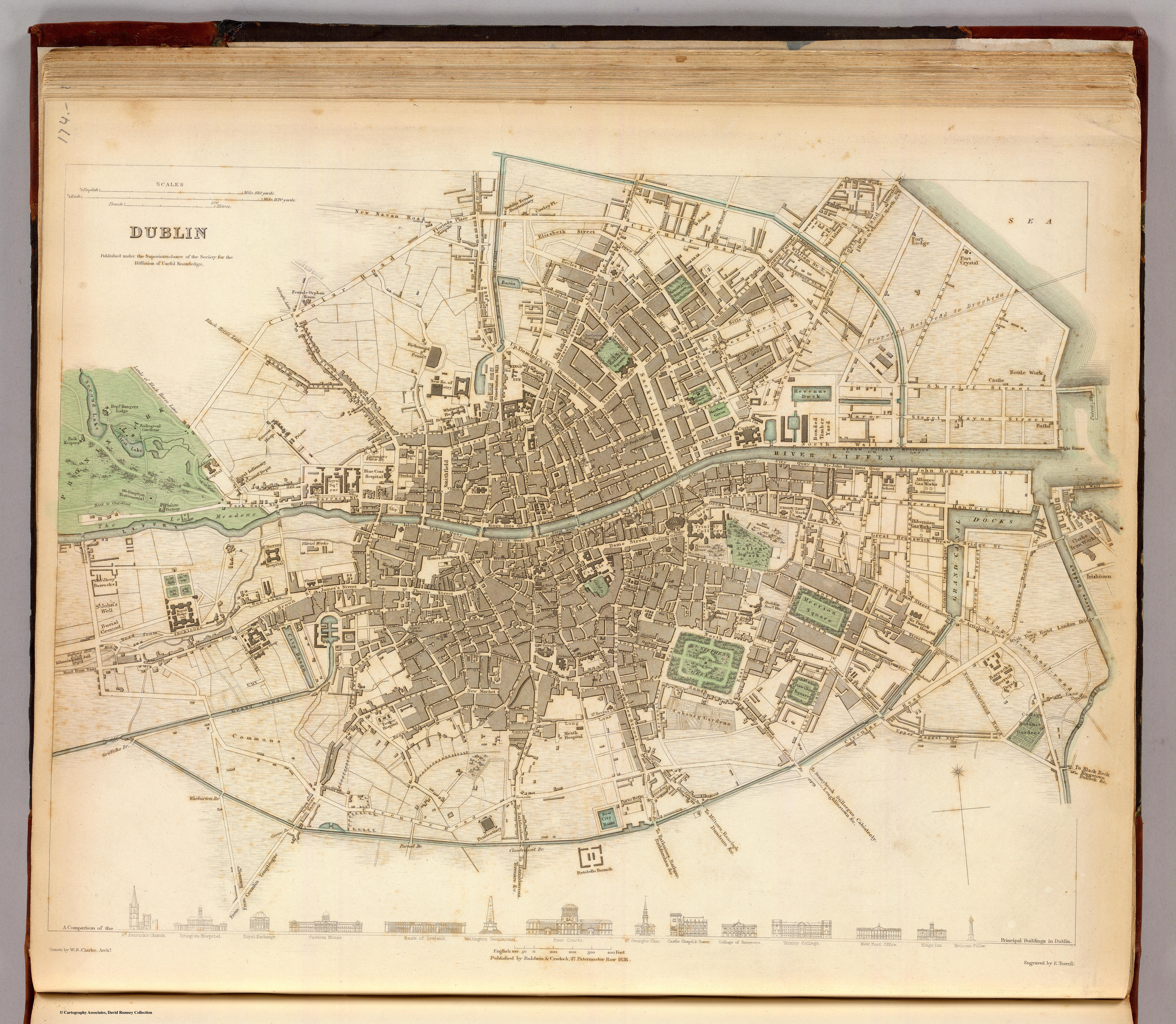 1836 map of Dublin City.